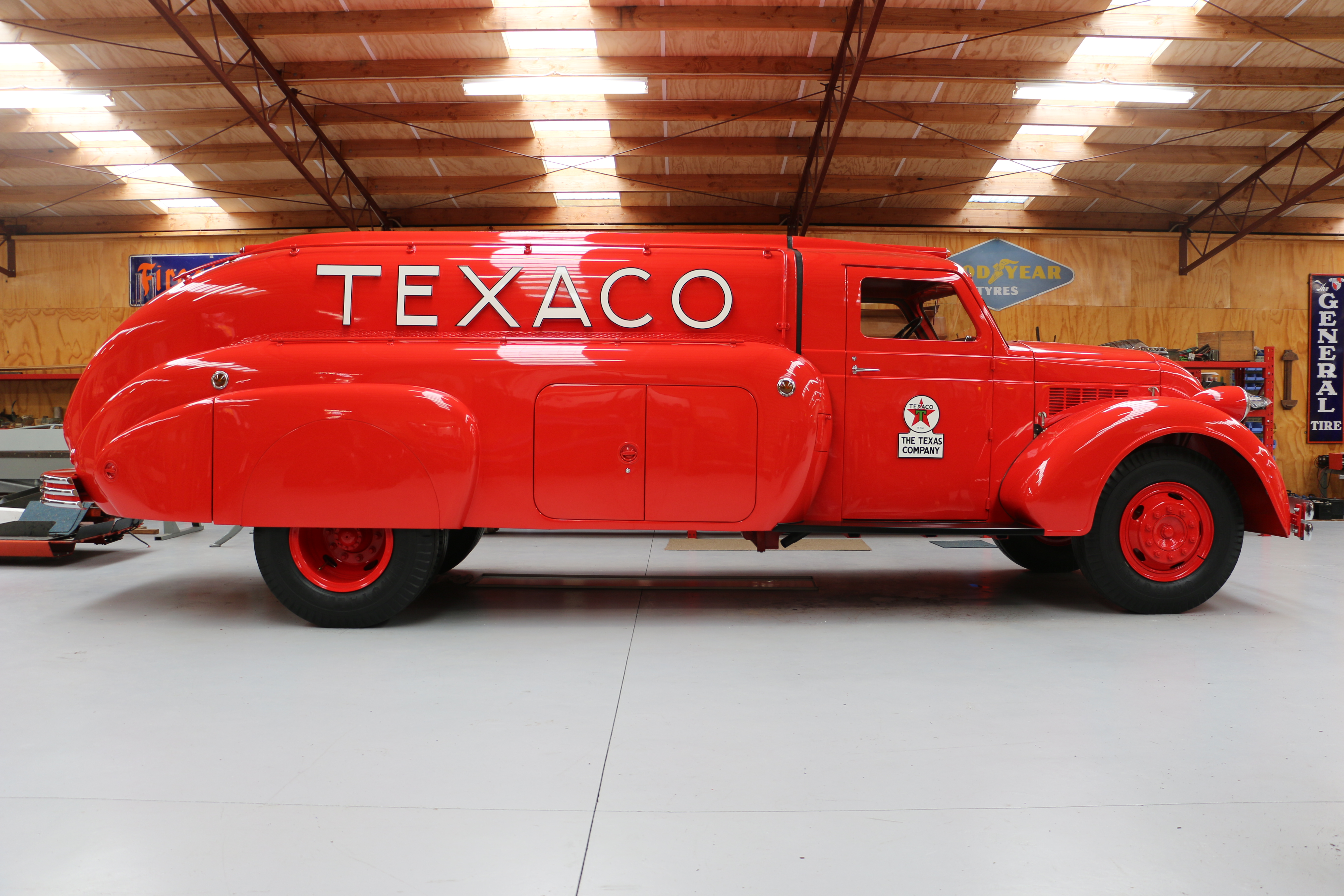 1940 Dodge RX70 Airflow Texaco Tanker in the workshop of Bill Richardson Transport World